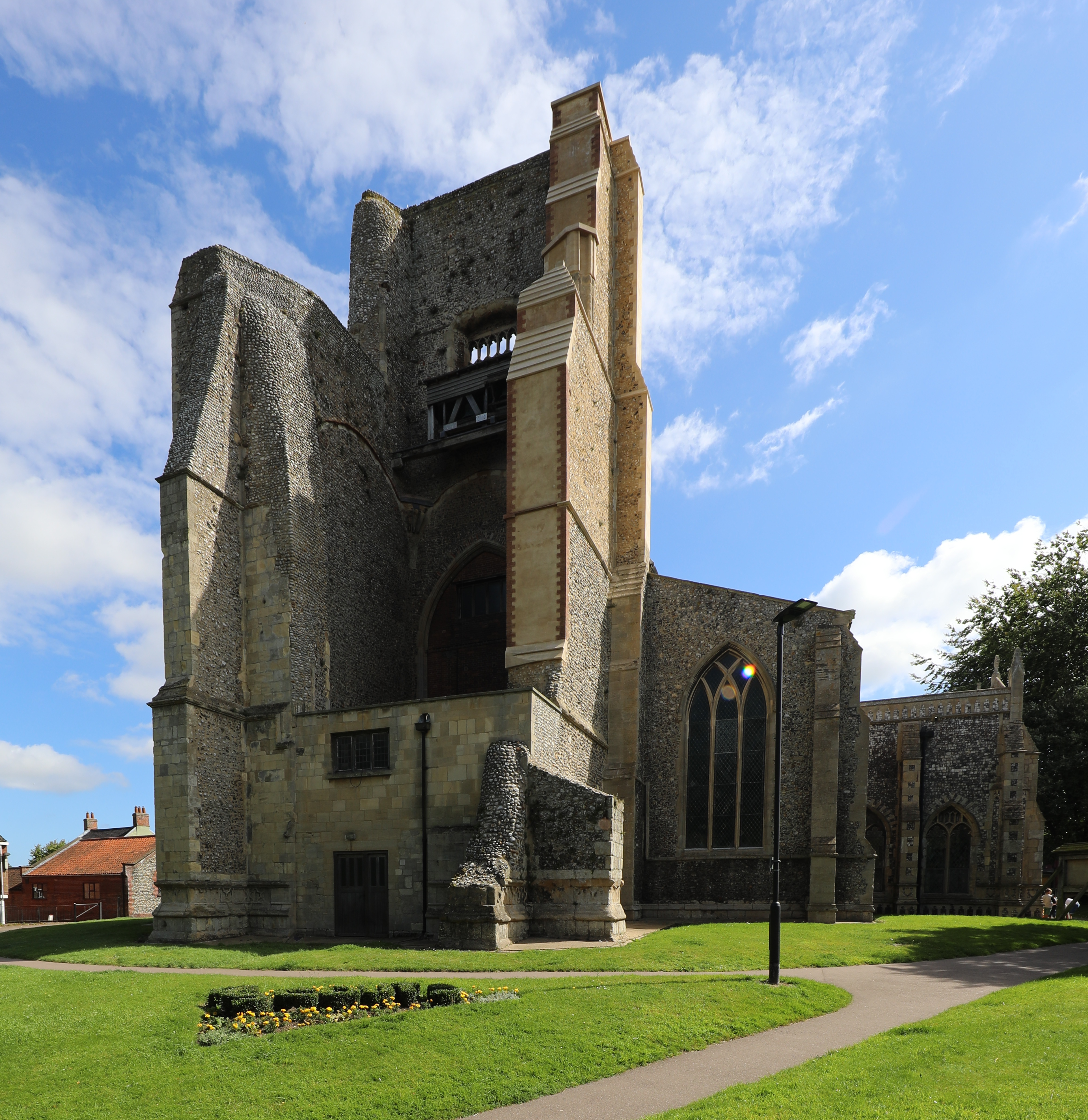 Photo of the collapsed tower of St Nicholas Church, North Walsham